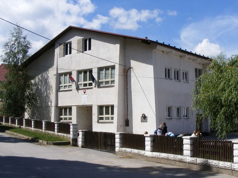 The building of the primary school of Chlebnice